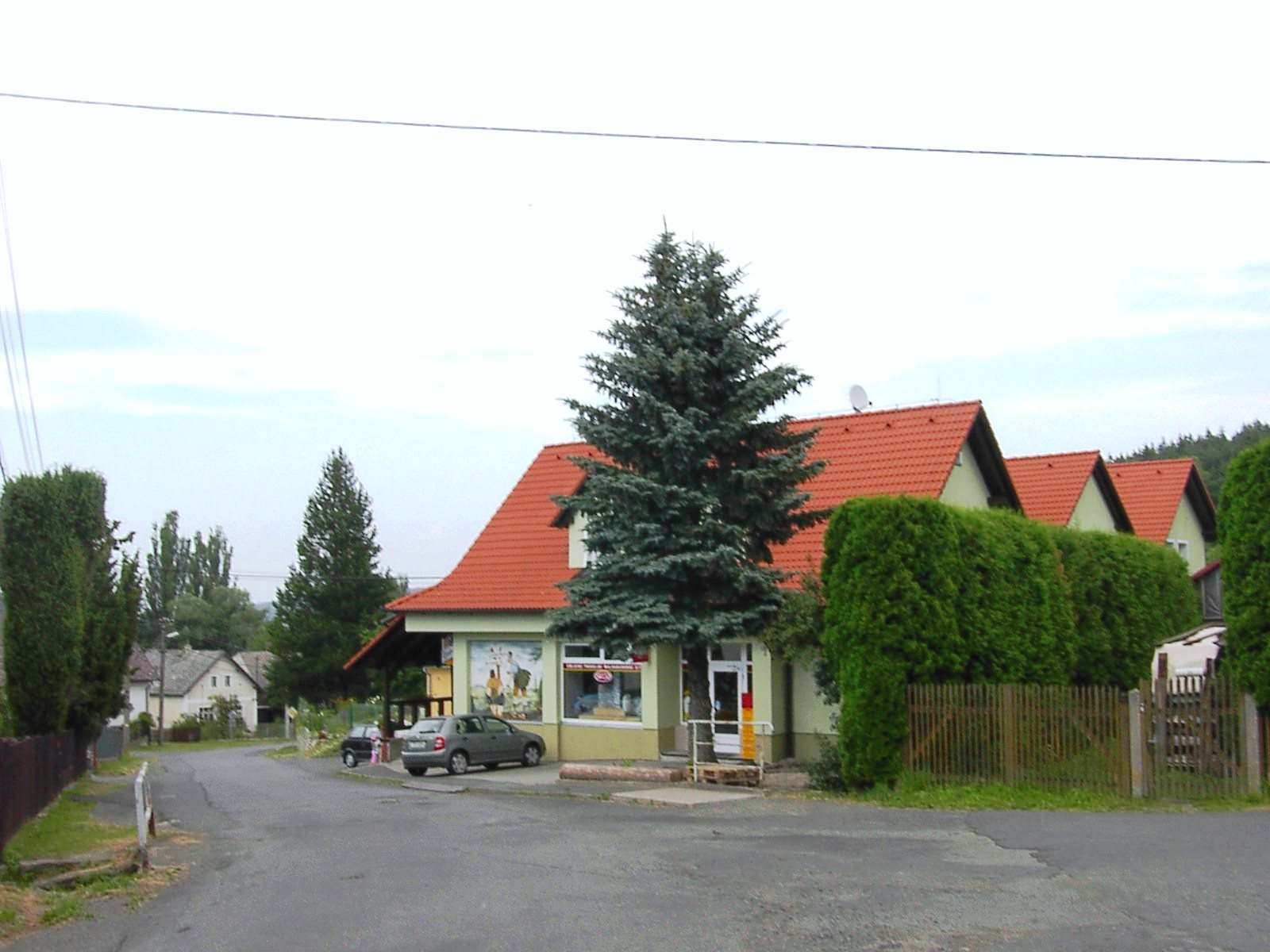 Grocery and pub in Pec, Domažlice District, Czech Republic.